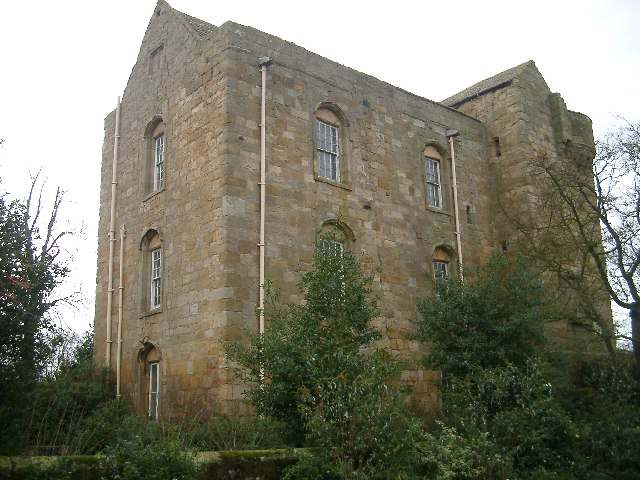 Cockle Park Tower, Hebron, Northumberland